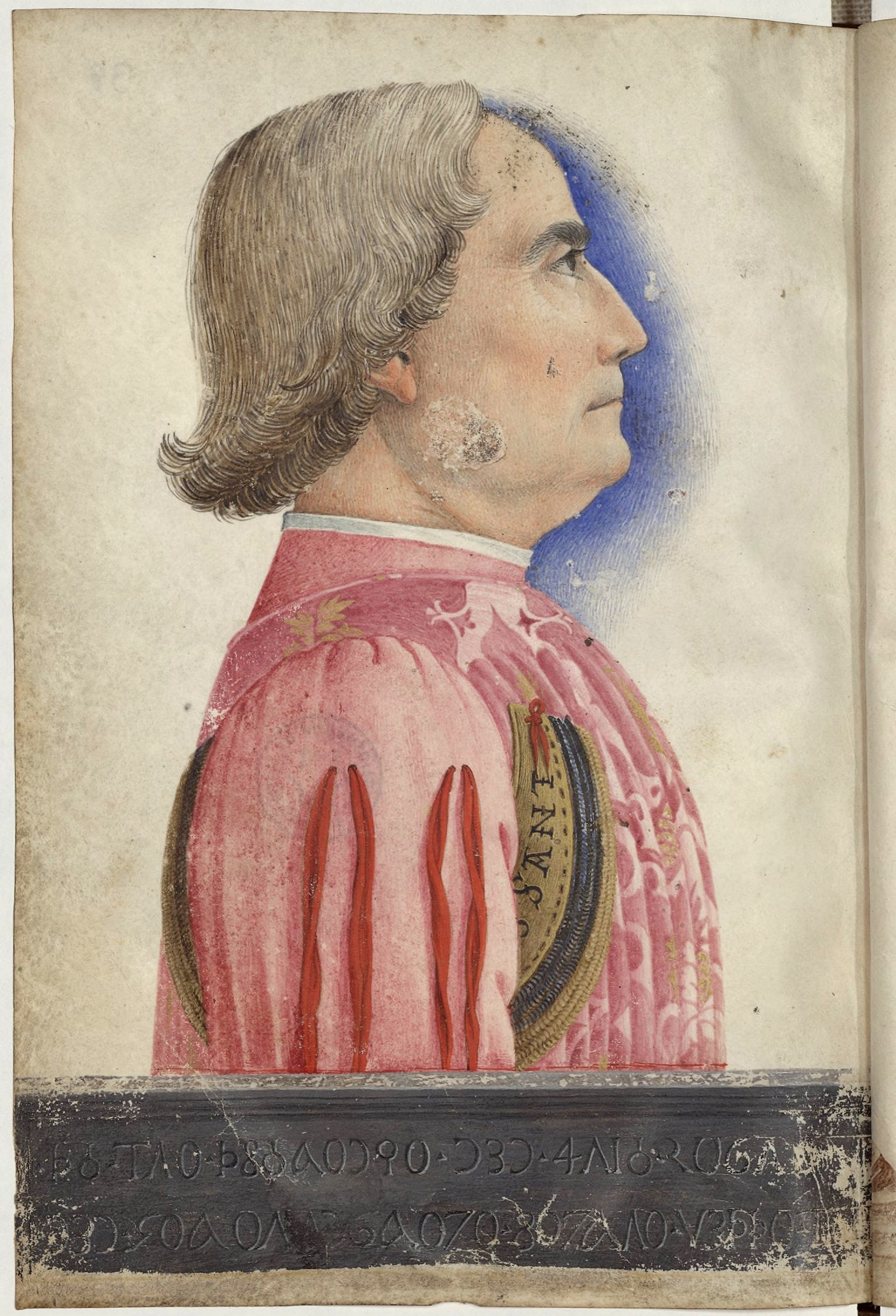 A portrait of the Venetian nobleman and provveditore, Jacopo Antonio Marcello. It is from an illustrated Italian manuscript Marcello prepared for Jean Cossa, Seneschal of Provence : Life and Passion of Saint Maurice.